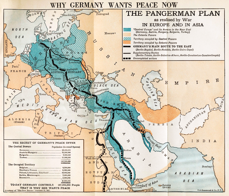 This small folding map, attacking the "PanGerman Plan"